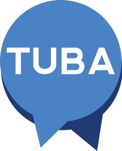 Logo TUBA Denmark